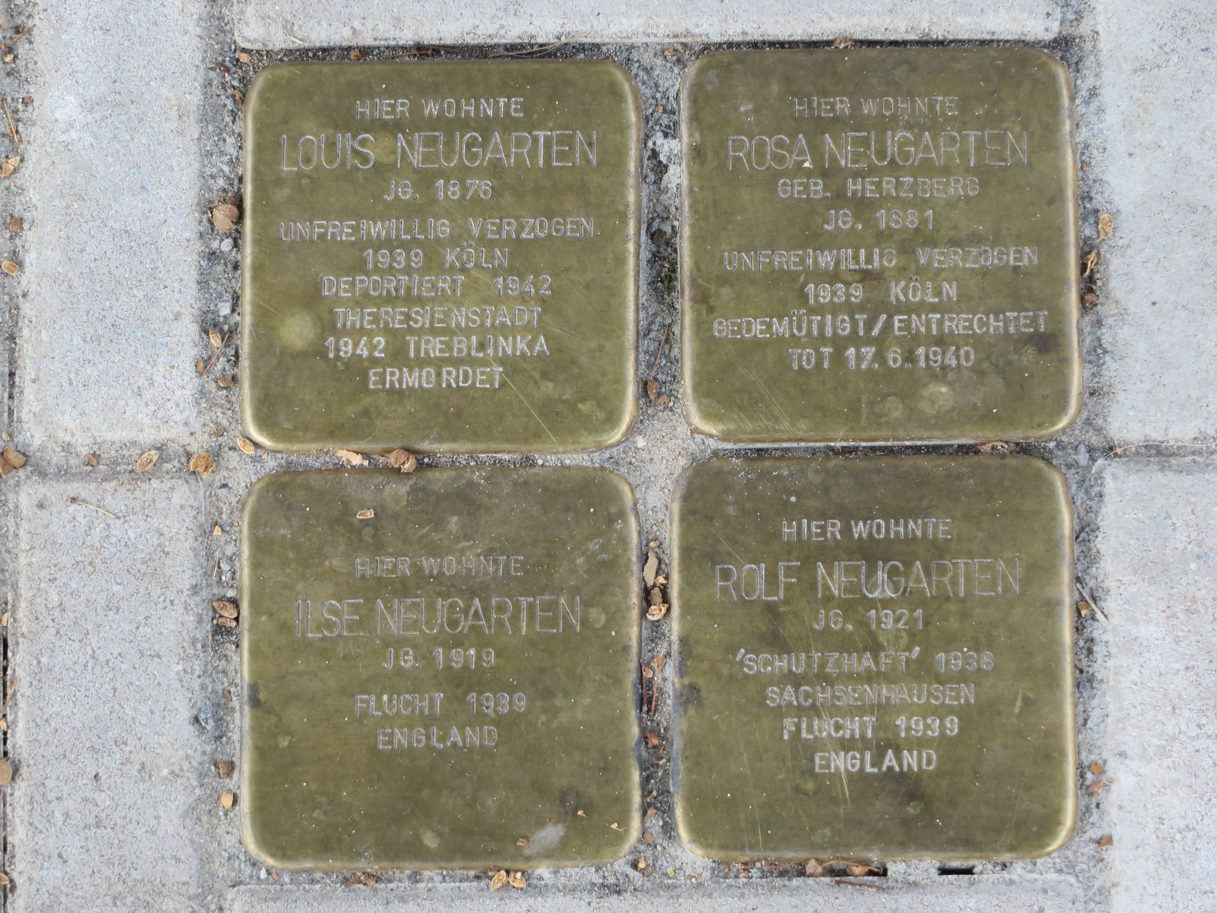 Stolpersteine at house Brunebecker Straße 53 in Witten, Germany